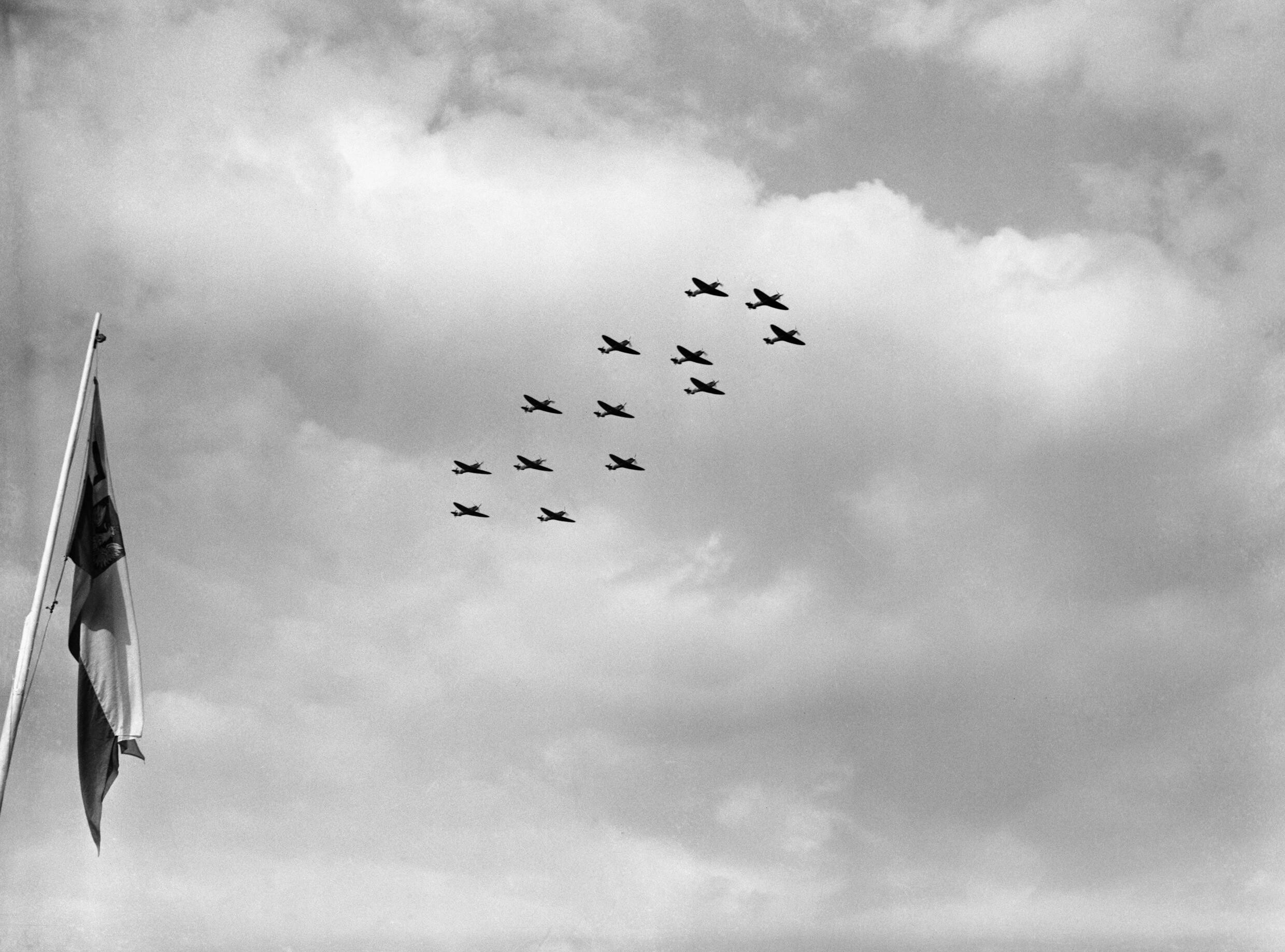 The Polish Air Force in Britain, 1940-1947 A formation of Supermarine Spitfire Mark IIAs of No. 303 Polish Fighter Squadron dip their wings as they pass the saluting base during a visit by Władysław Raczkiewicz, the President of Poland, to RAF Northolt, 4 April 1941.